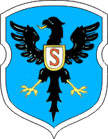 Coat of Arms of Mazyr (hictorical)